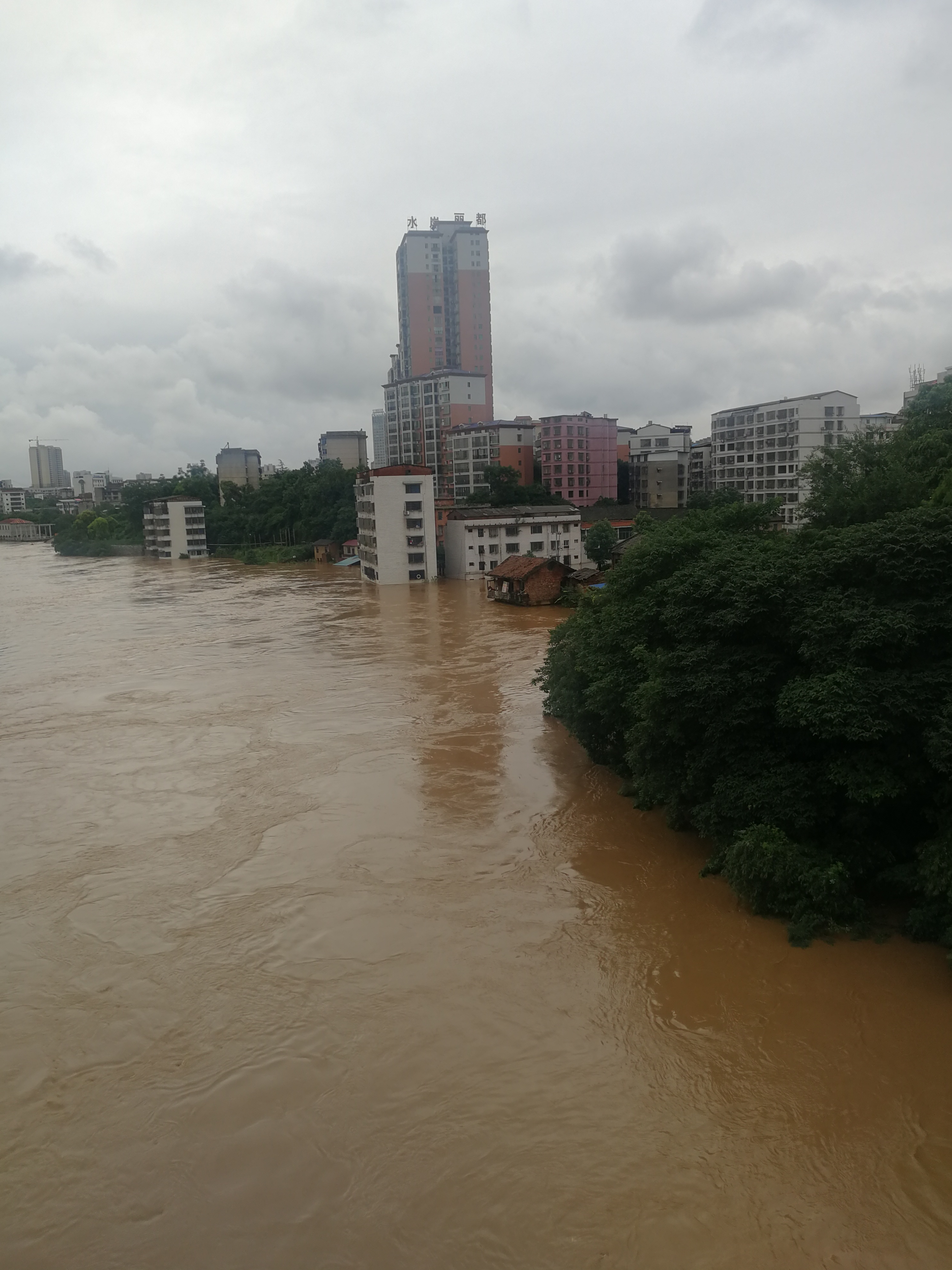 Photo taken on July 14, 2019 shows the Xiangjiang River in Lengshuitan District of Yongzhou, Hunan, China. The flood inundates the buildings along the river.